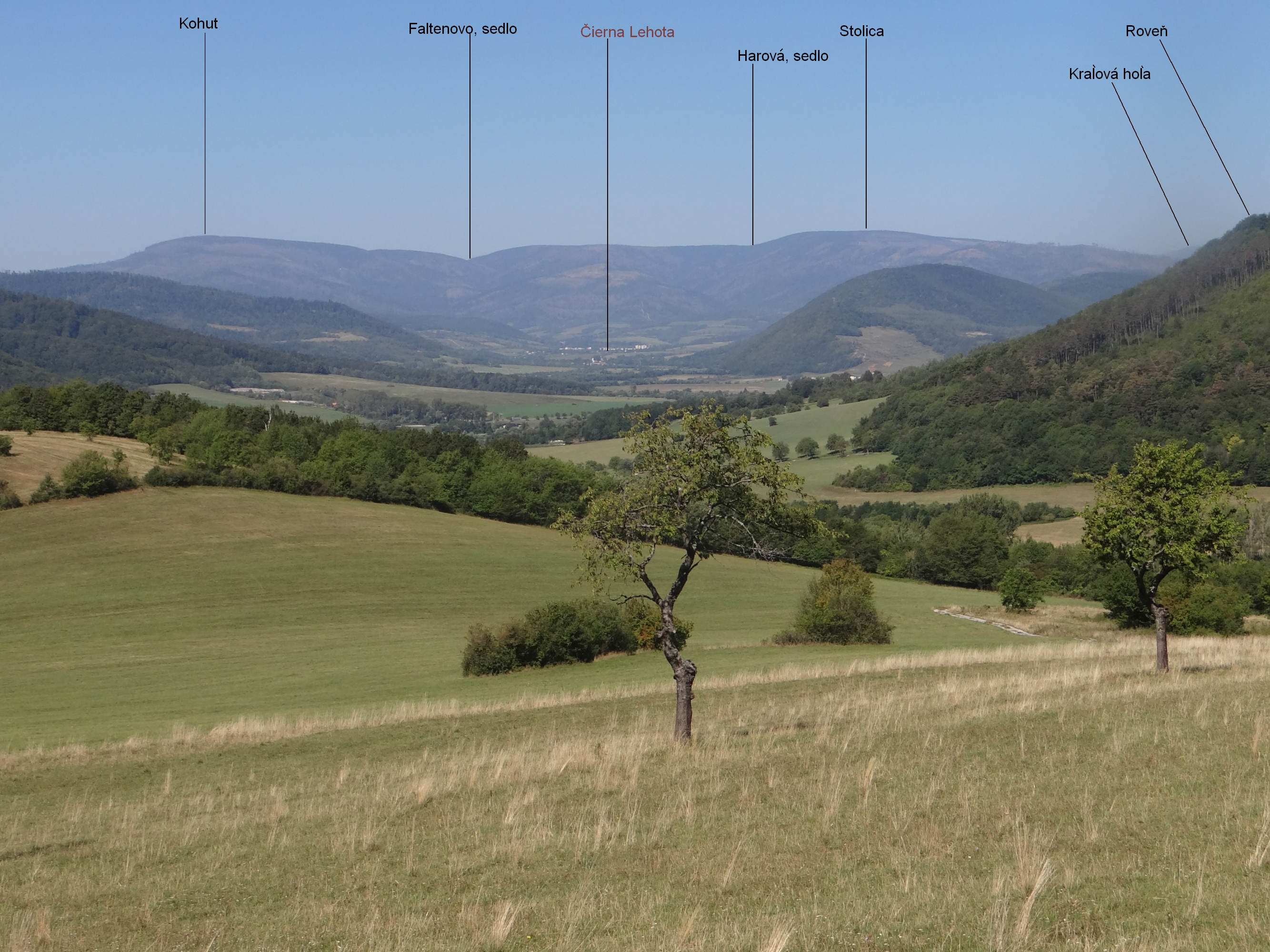 View from Štítnik (Slovenský kras)